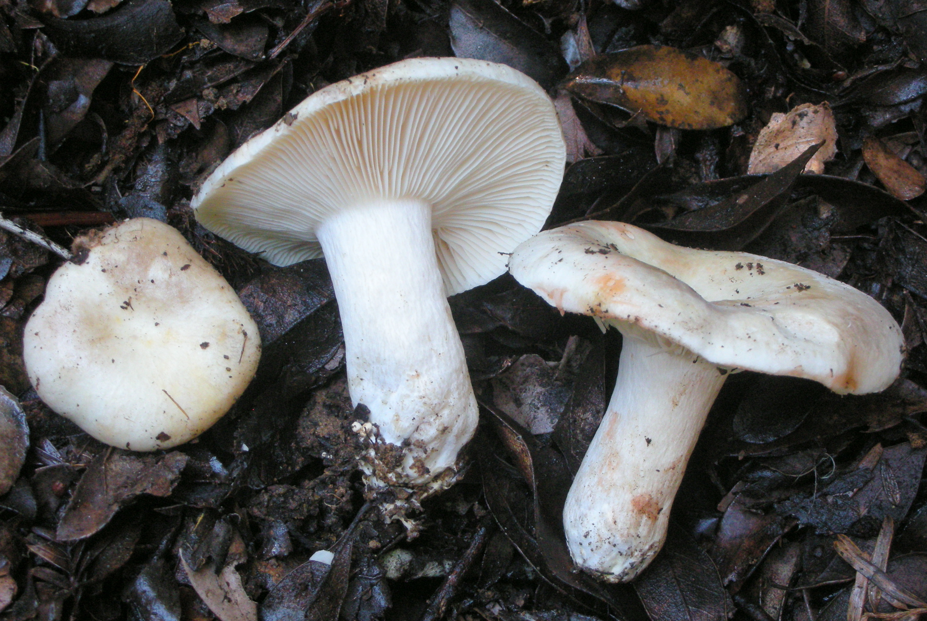 Russula densifolia Gillet Image location: Bolinas Ridge, Marin Co., California, USA These were growing under mixed hardwoods and perhaps a conifer. Caps up to 9.7 cm across and which bruised blackish brown. The context of the cap and stem turned reddish when cut and then eventually gray. The spores were whitish, amyloid, and were ~ 7.0-9.0 X 5.8-7.0 microns, moderately warted and with partial reticulations. No strong odor and a mild taste. Used references: The Agaricales of California 9. Russula by Harry Thiers. For more information about this, see the observation page at Mushroom Observer.